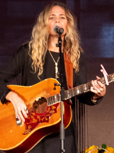 Shelly Colvin and Ketch Secor On Wednesday evening, October 30, 2019, Speaker Nancy Pelosi received the 2019 LBJ Liberty & Justice for All award from the LBJ Foundation. The event was held at the Andrew W. Mellon Auditorium in Washington D.C. LBJ Foundation photo by Daniel Swartz